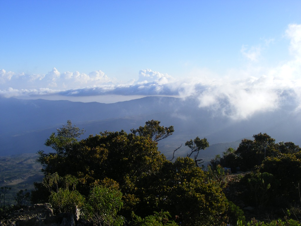 Overview of the Almadow Mountains in Sanaag, Somalia.